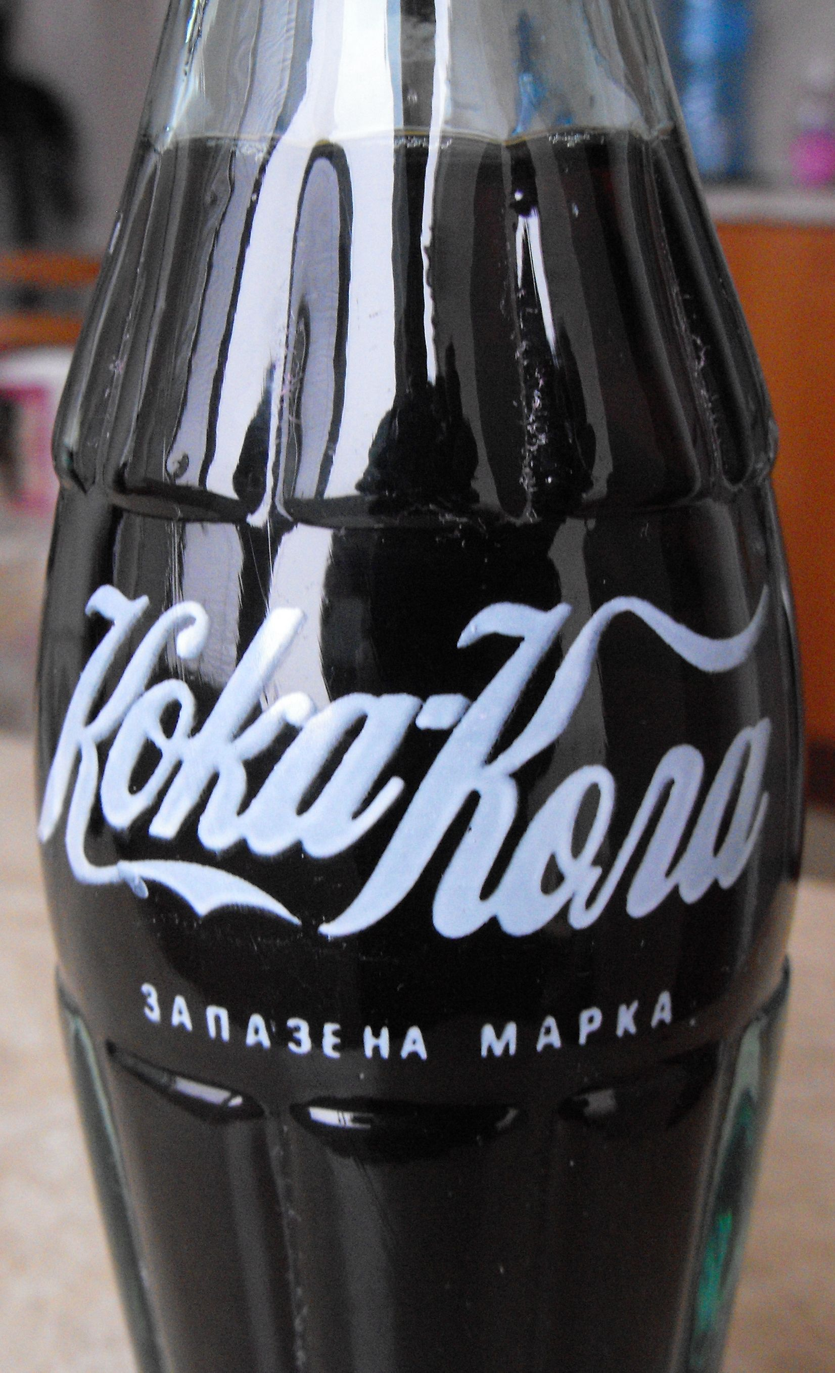 Coca-Cola with bulgarian superscription